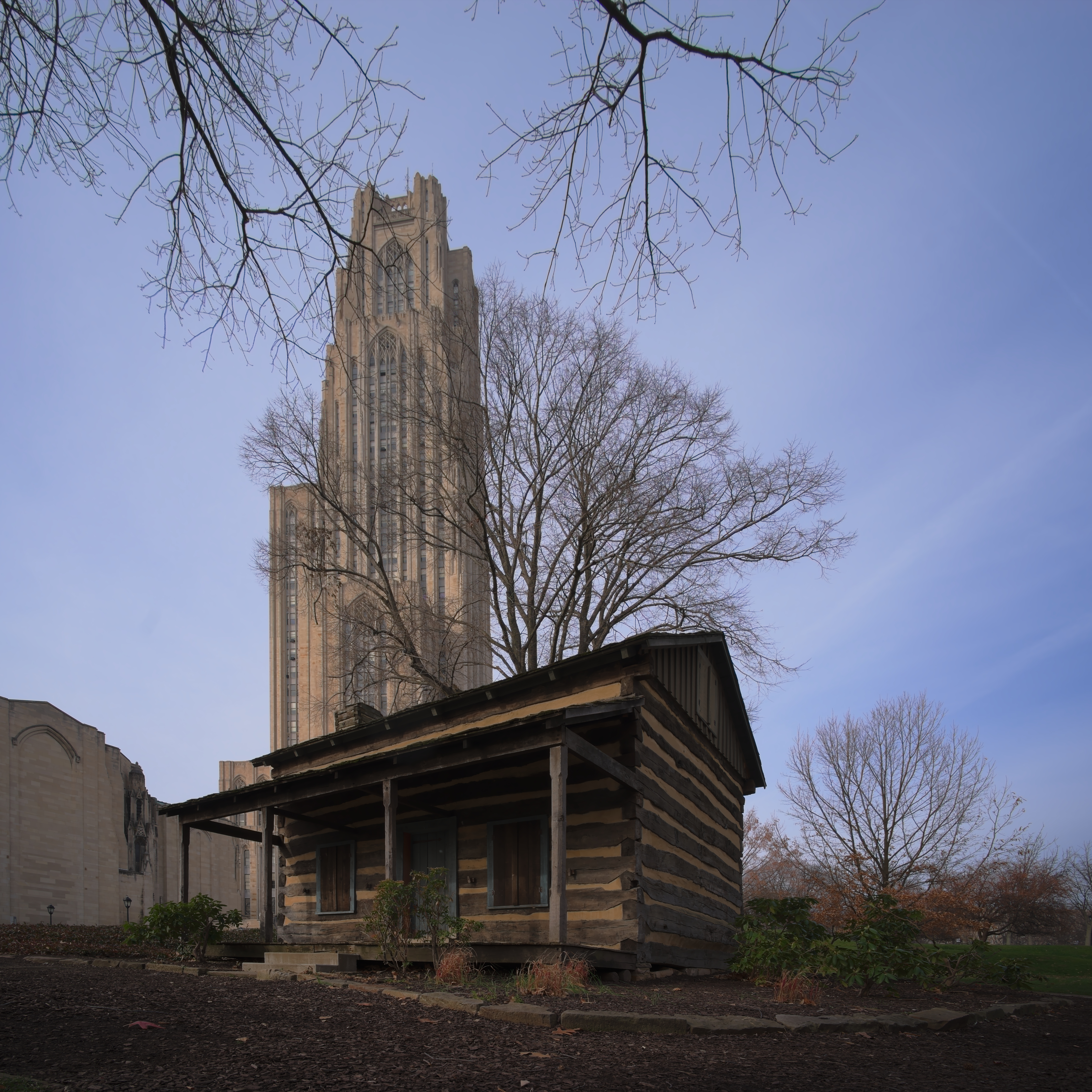 The famous Log Cabin of the University of Pittsburgh is a landmark that symbolizes the university's origins on the 18th century western frontier of the United States. In the background is the Cathedral of Learning.